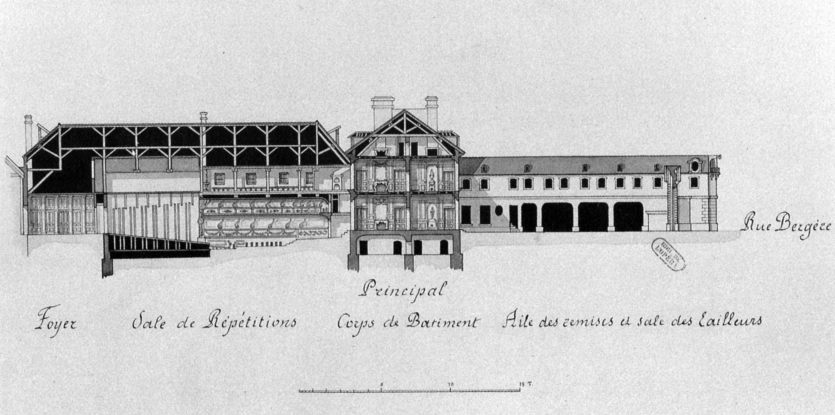 Long section of the Hôtel des Menus-Plaisirs on the Rue Bergère in Paris